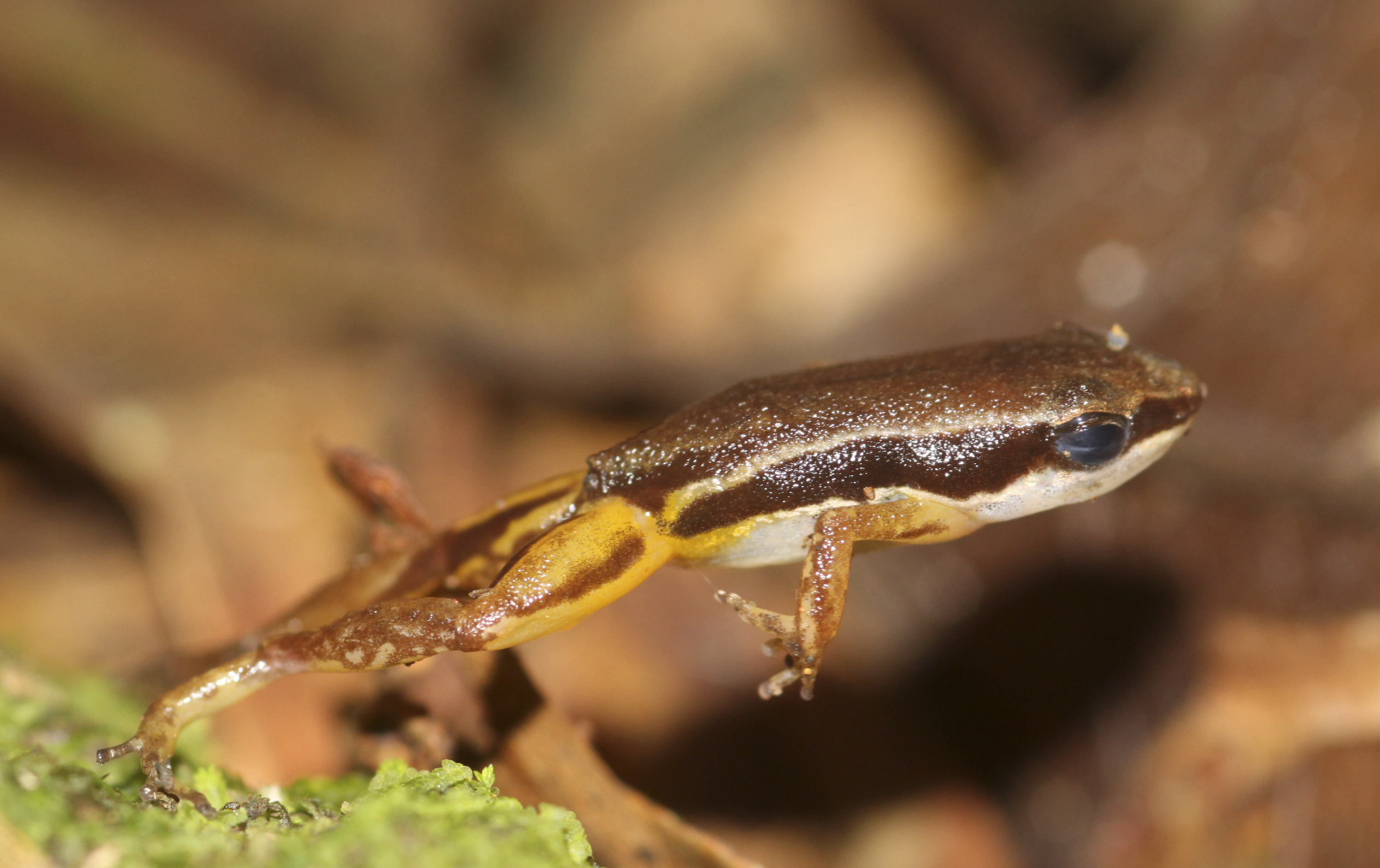 Colostethus flotator, Panama